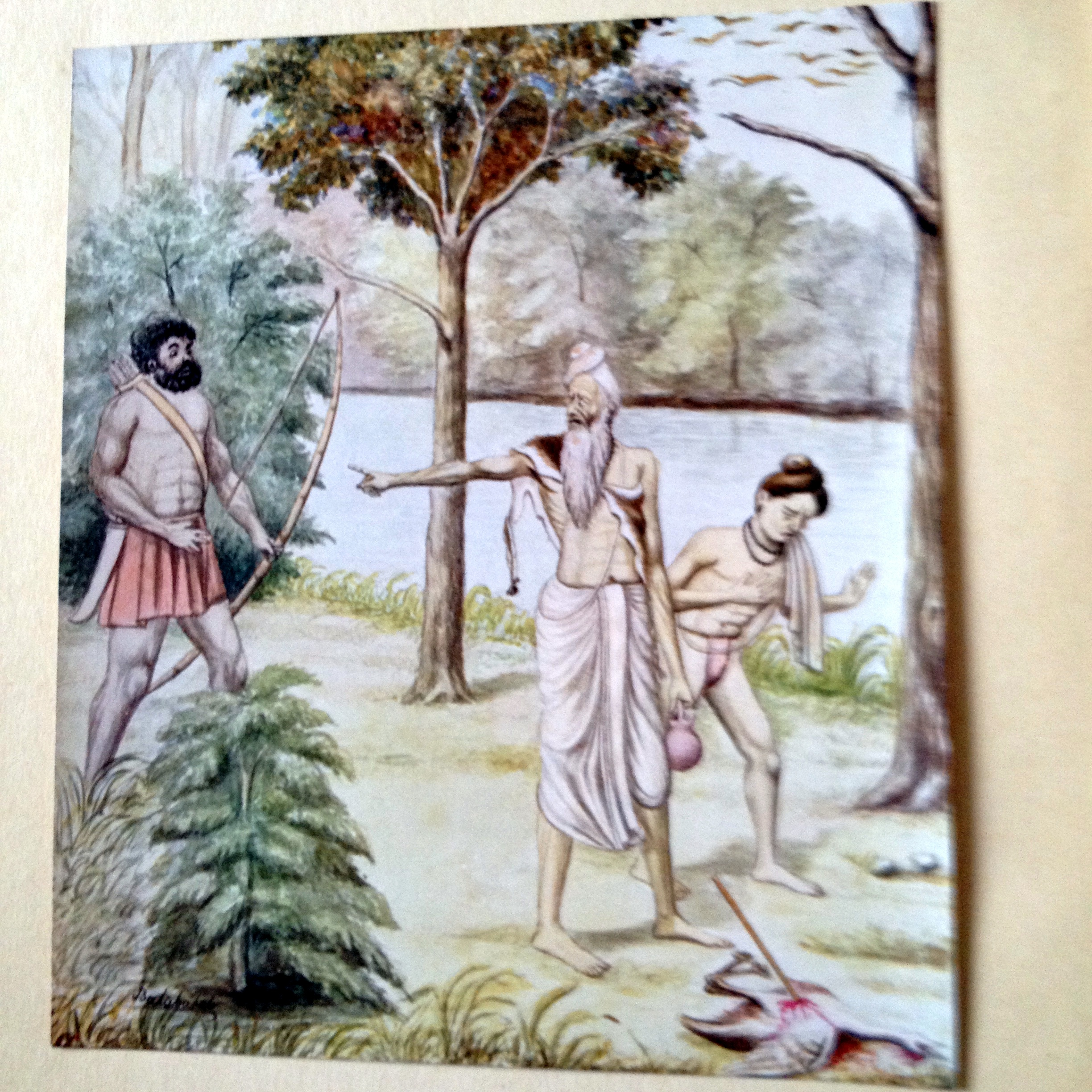 Once hermit Valmiki set out for river Tamasa to have morning bath. A heron couple was engaged in love-play near the bank. Suddenly a sharp arrow pierced the chest of the male bird which fell bleeding near the feet of the hermit. Filled with anguish, the hermit uttered a curse at this cruel act of the hunter which was spontaneously poetic. "You have killed one of the love smitten pair, O! Hunter. You will not prosper for years to come!" --He declared. The curse was poetic and metrical. The hermit, who was an illiterate hunter himself earlier, had under gone a change of heart and engaged in severe penance and study, over years. Now this heart-rending scene before his very eyes made way for spontaneous poetic expression. The meter of two lined verse, known as anushthub became popular over the ages in Sanskrit. The bewilderment of the hunter, anguish of the hermit, agony and shock of the accompanying disciple, at the bleeding bird are very well-depicted by artist Balasaheb Pandit Pratinidhi. Source of Picture: Chitra Ramayana by Ramachandra Madhwa Mahishi, Illustrated by Balasaheb Pandit Pant Pratinidhi, 1916 Commentary: Dr. Jyotsna Kamat